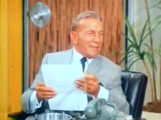 George Burns on The Lucy Show.